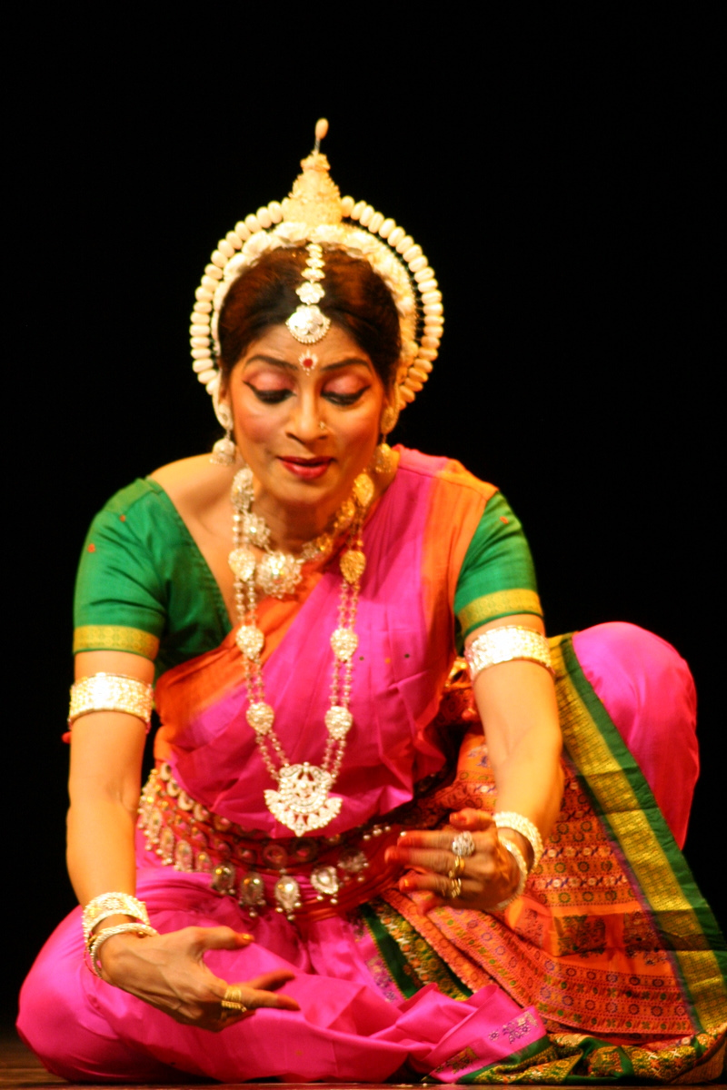 Geeta Mahalik (born 1948)[1] is an Indian classical dancer, regarded by many, as one of the finest exponents of the Indian classical dance form of Odissi,[2] the oldest among the eight Indian classical dance forms.[3][4] The Government of India honored her, in 2014, with the Padma Shri, the fourth highest civilian award, for her services to the field of art and culture.[5]